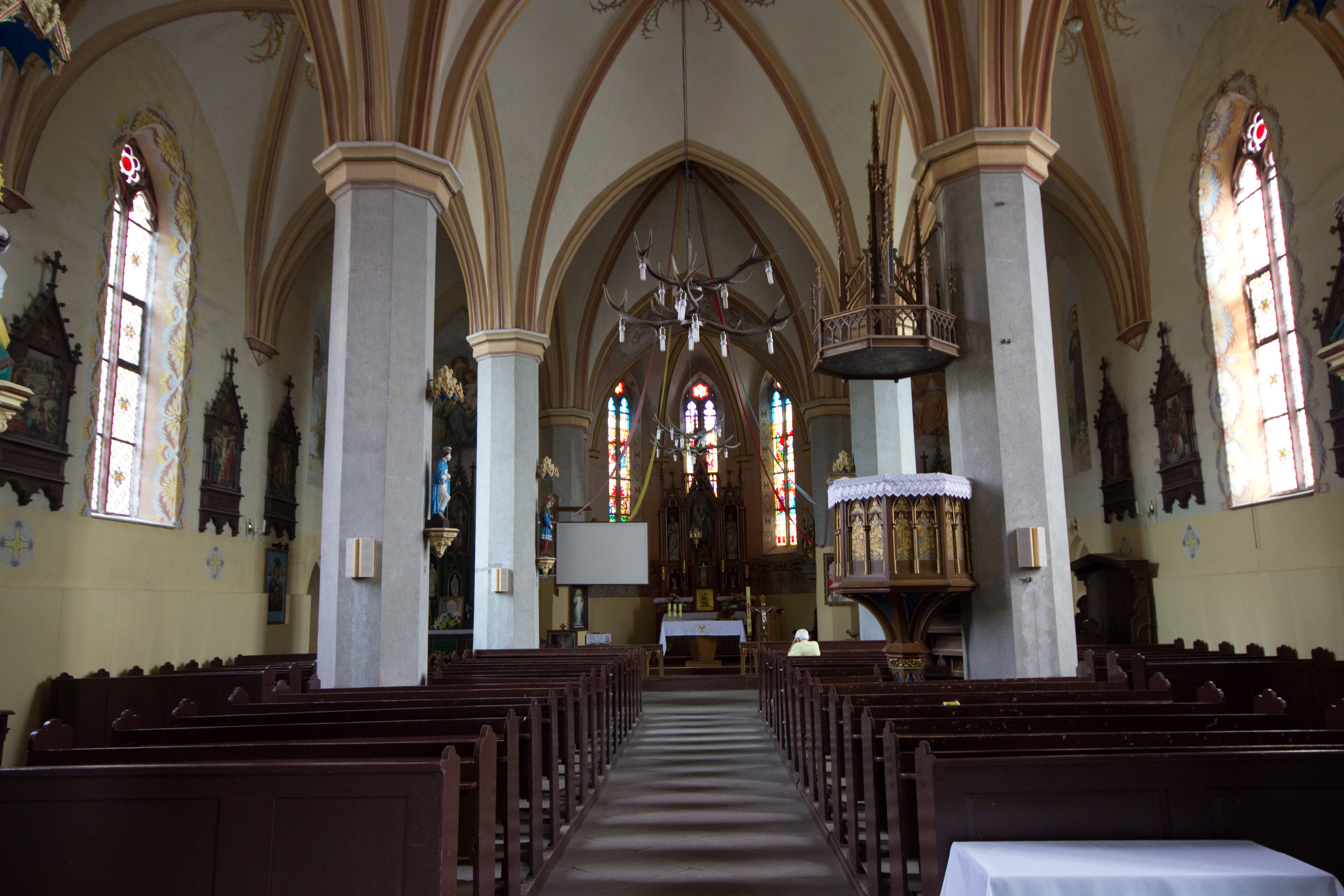 Church, Lutry, gmina Kolno, powiat olsztyński, Warmian-Masurian Voivodeship